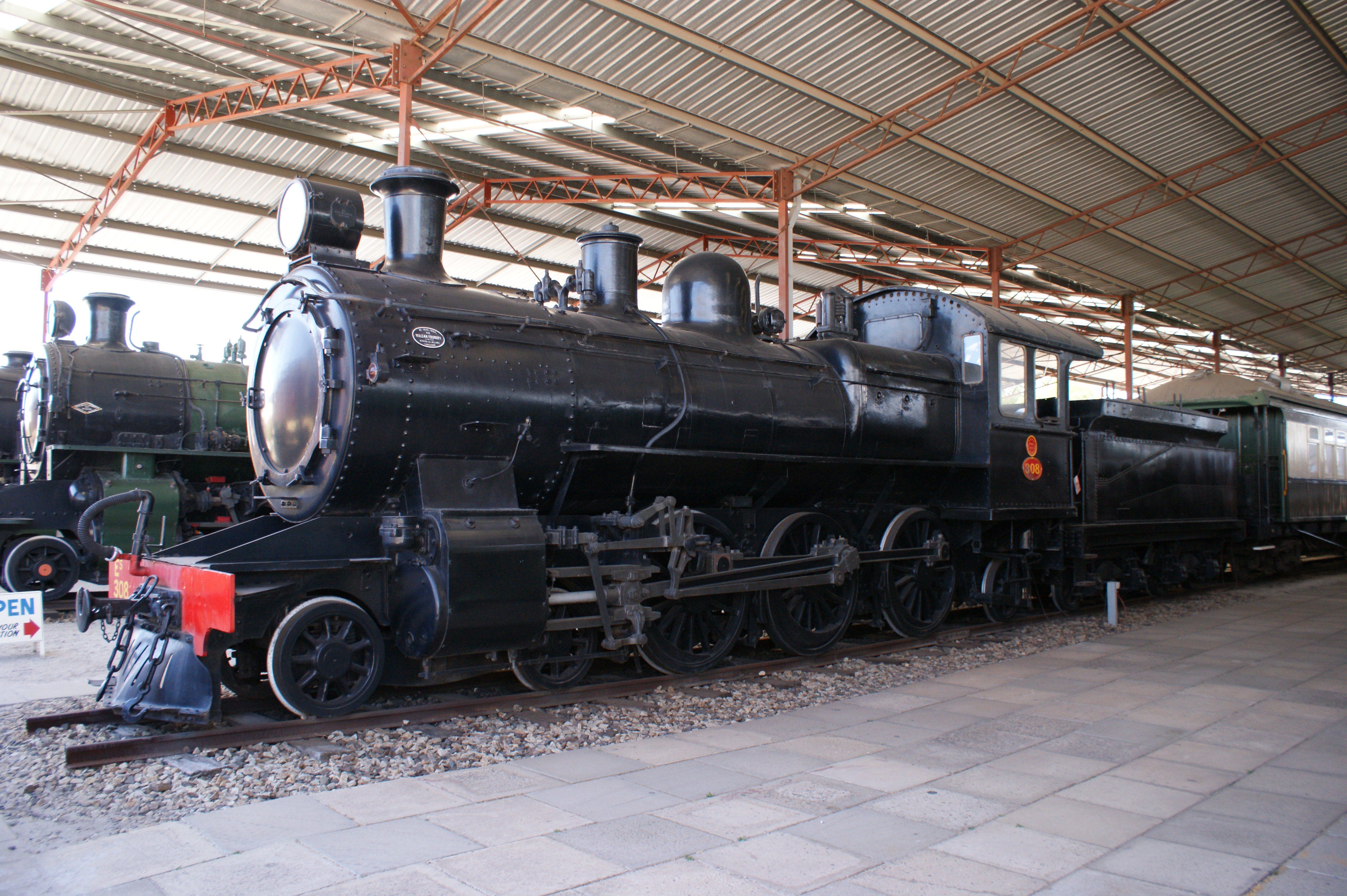 WAGR "Es" 4-6-2 No.308, built as "E" No.367 (Vulcan Foundary 1846/1902) and rebuilt as "Es" with larger superheated boiler in 1925 by WAGR Midland Works. 2/10.